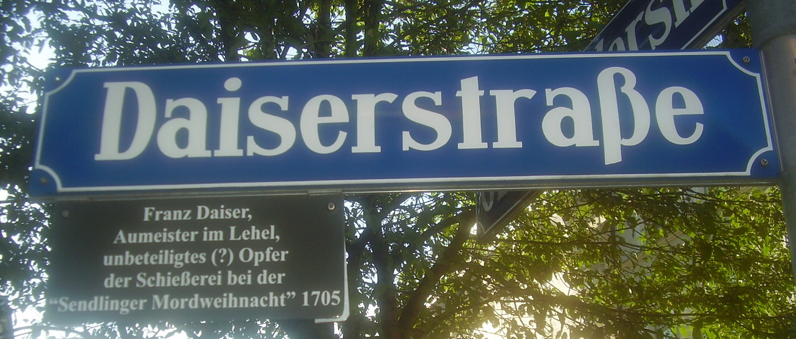 Daiserstraße, Munich (street name sign)